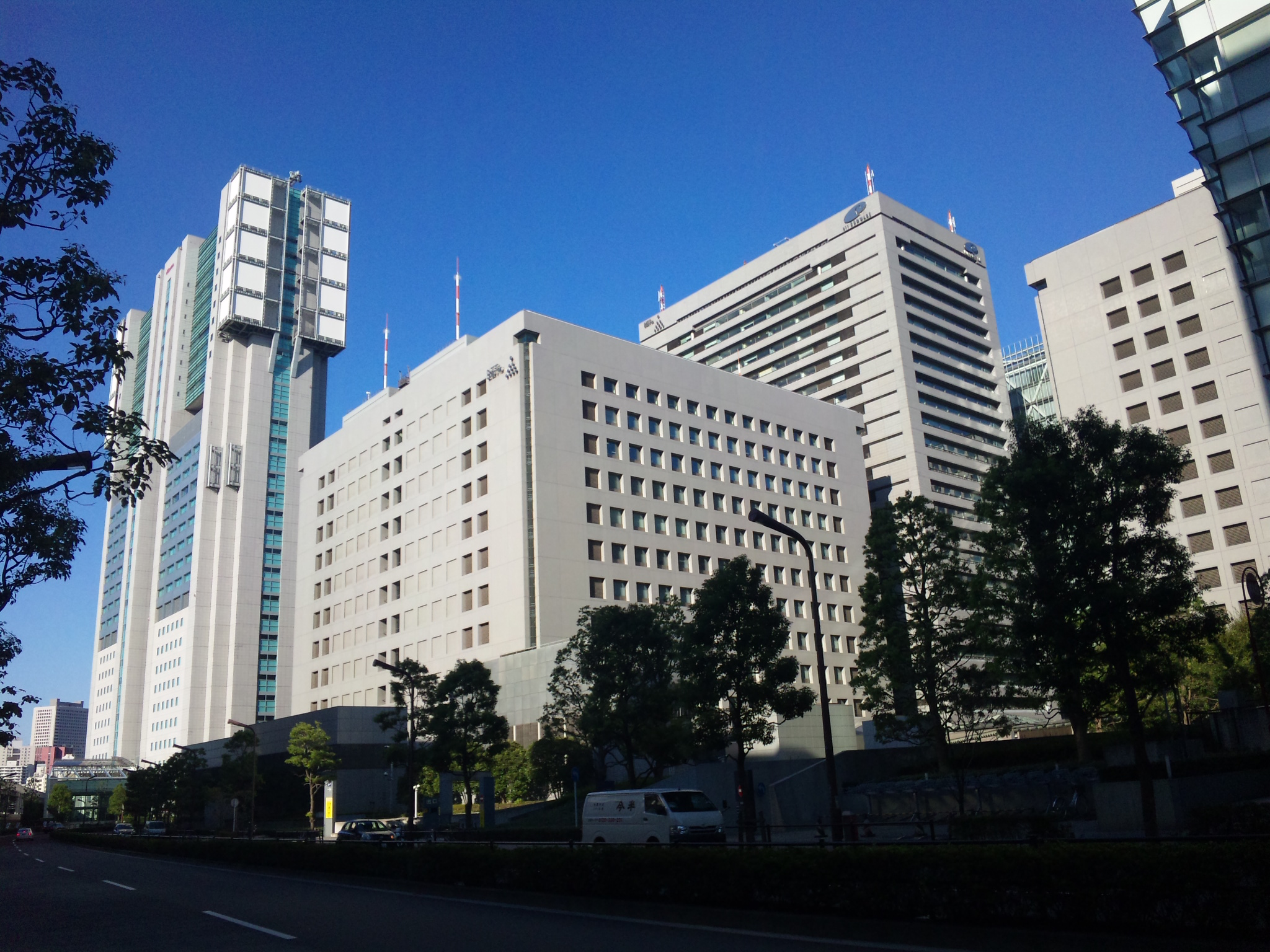 NTT DATA Shinagawa